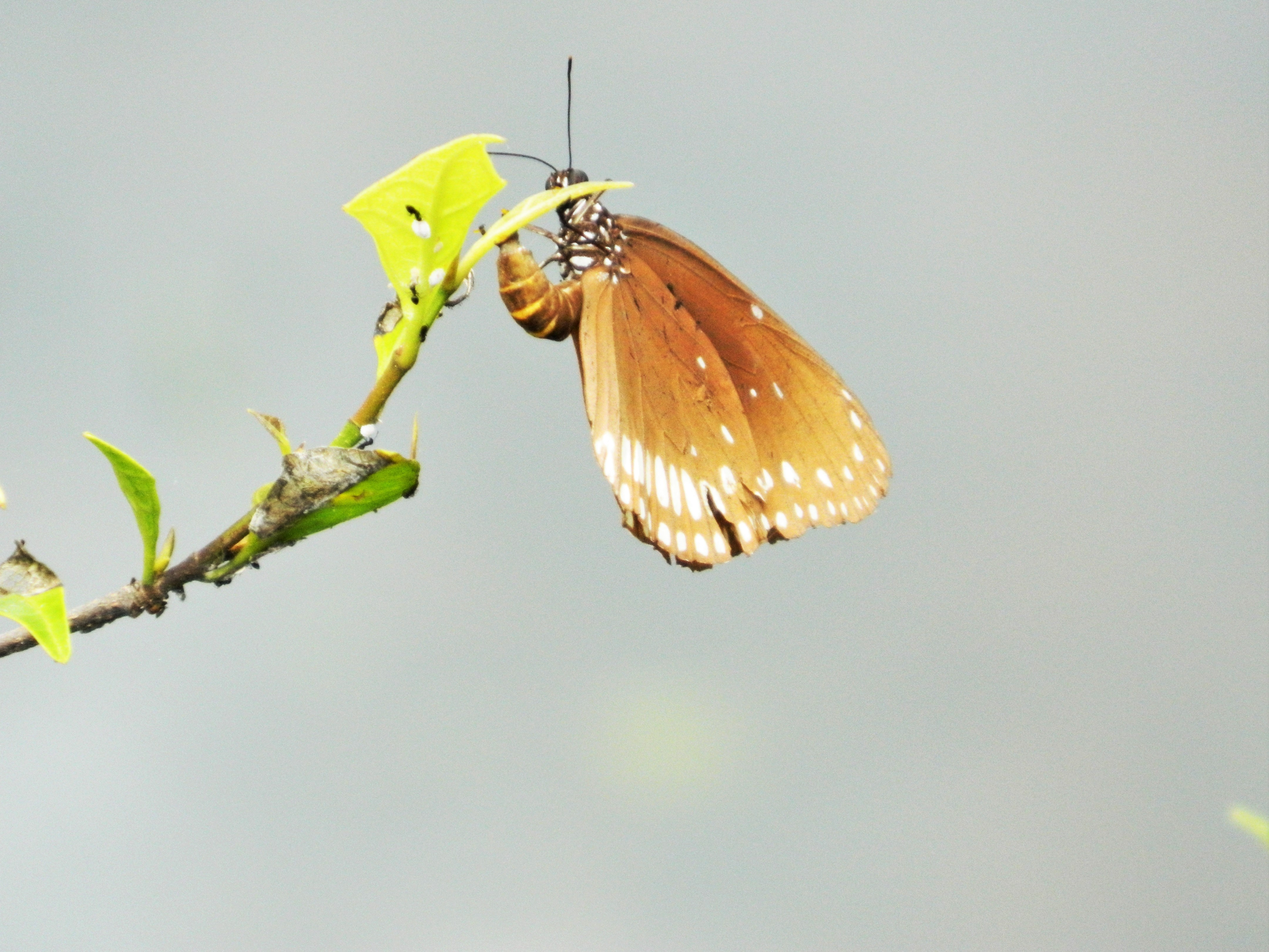 The butterfly can be seen laying eggs underneath the leaf. Periyar national park, Kerala.